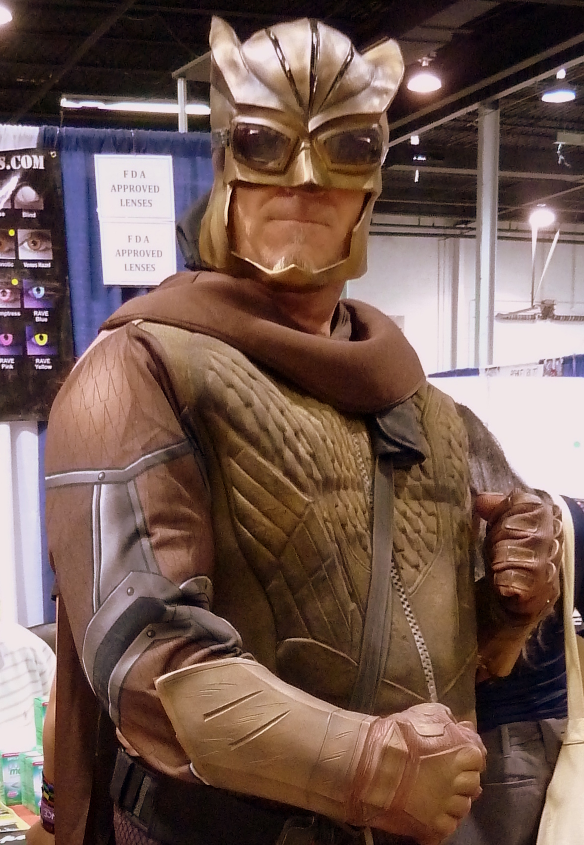 Cosplay of Nite Owl (from DC Comics' Watchmen) at Wizard World Chicago 2012.